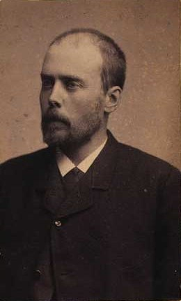 Morten Oxenbøll Pontoppidan (1851-1931), Danish priest and writer